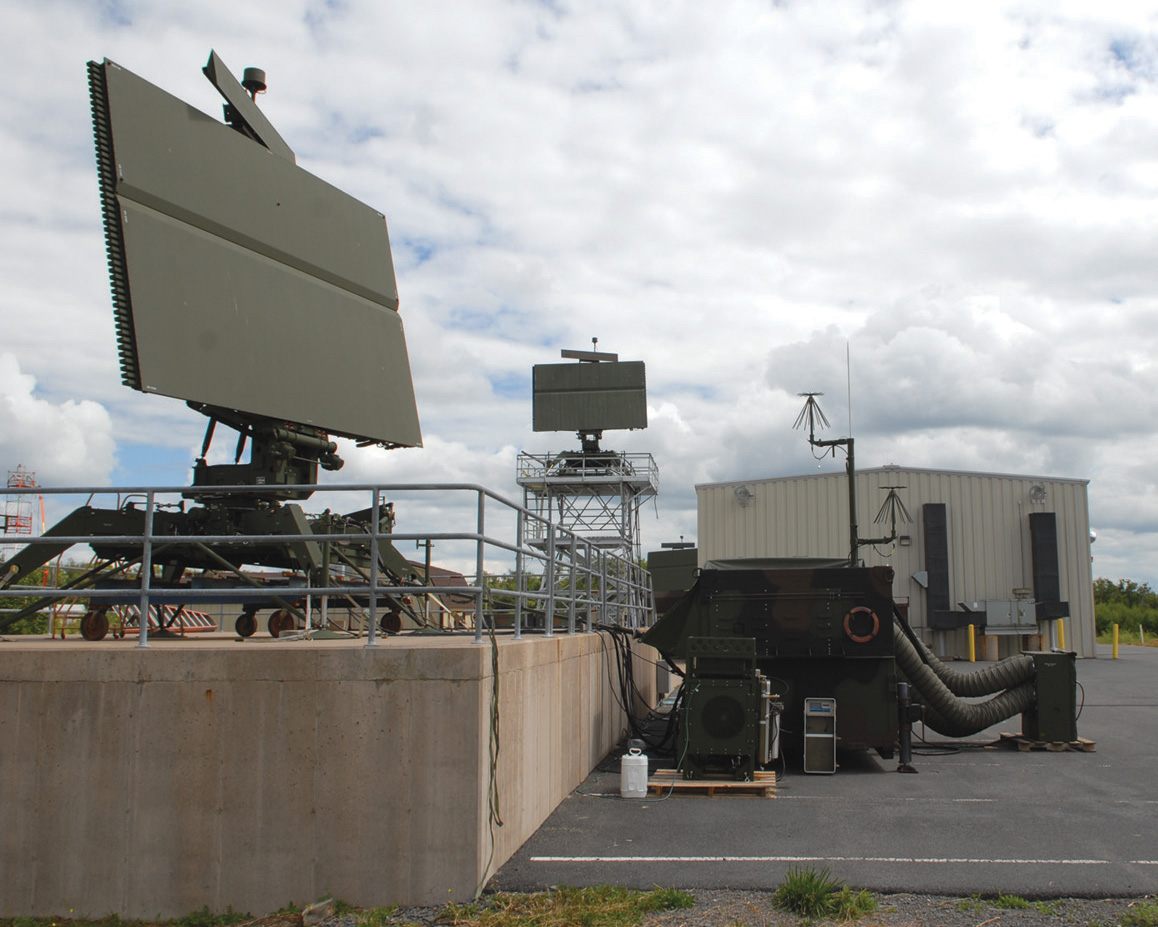 Tobyhanna Army Depot's first Shingo award was for improvements to a U.S. Air Force workload, the AN/TPS-75 radar system. Depot employees reduced the repair cycle time and repair costs.